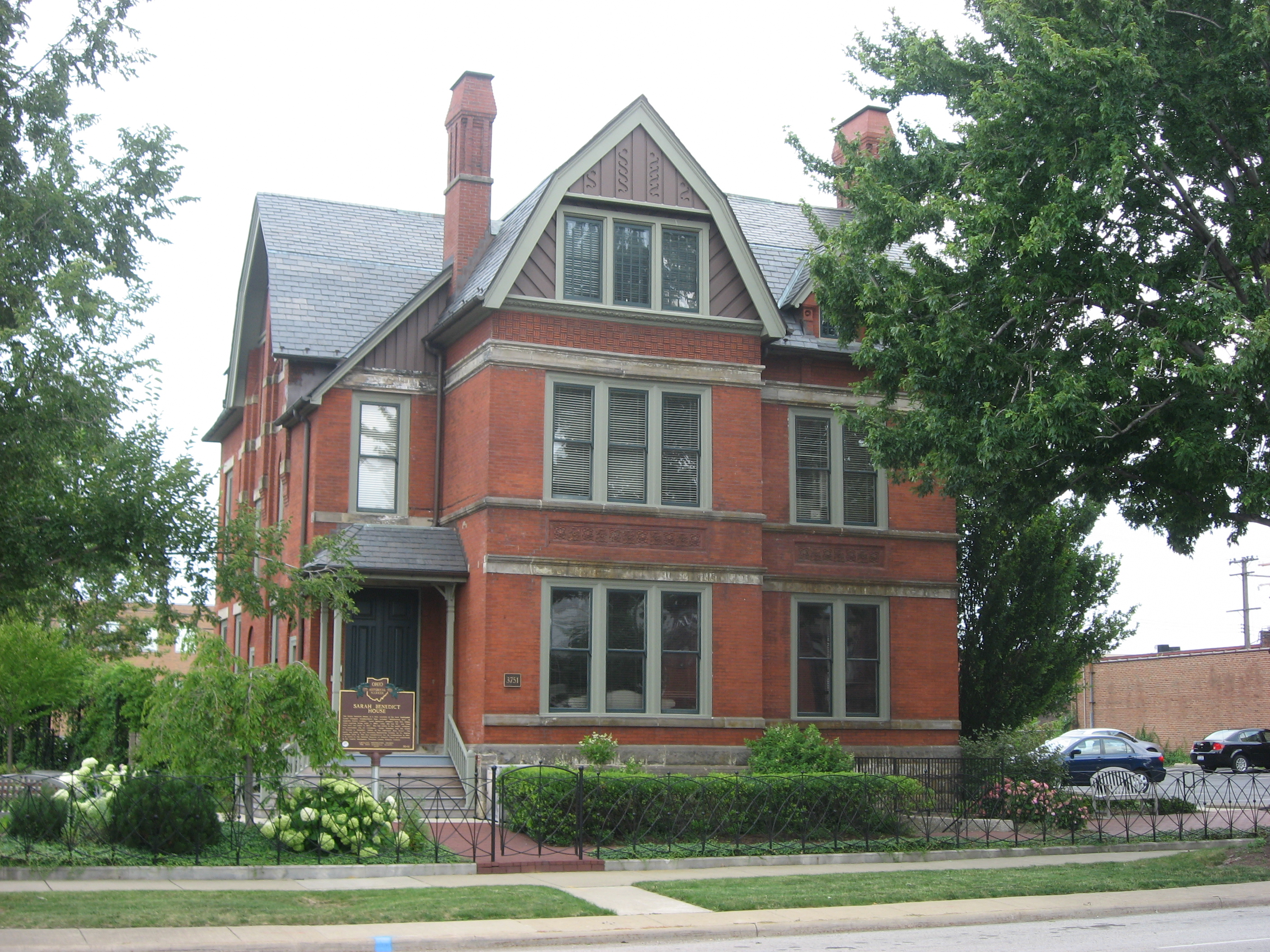 Exterior of the Sarah Benedict House, located at 3751 Prospect Avenue in Cleveland, Ohio, United States. Built in 1883, it houses the Cleveland Restoration Society and is listed on the National Register of Historic Places.